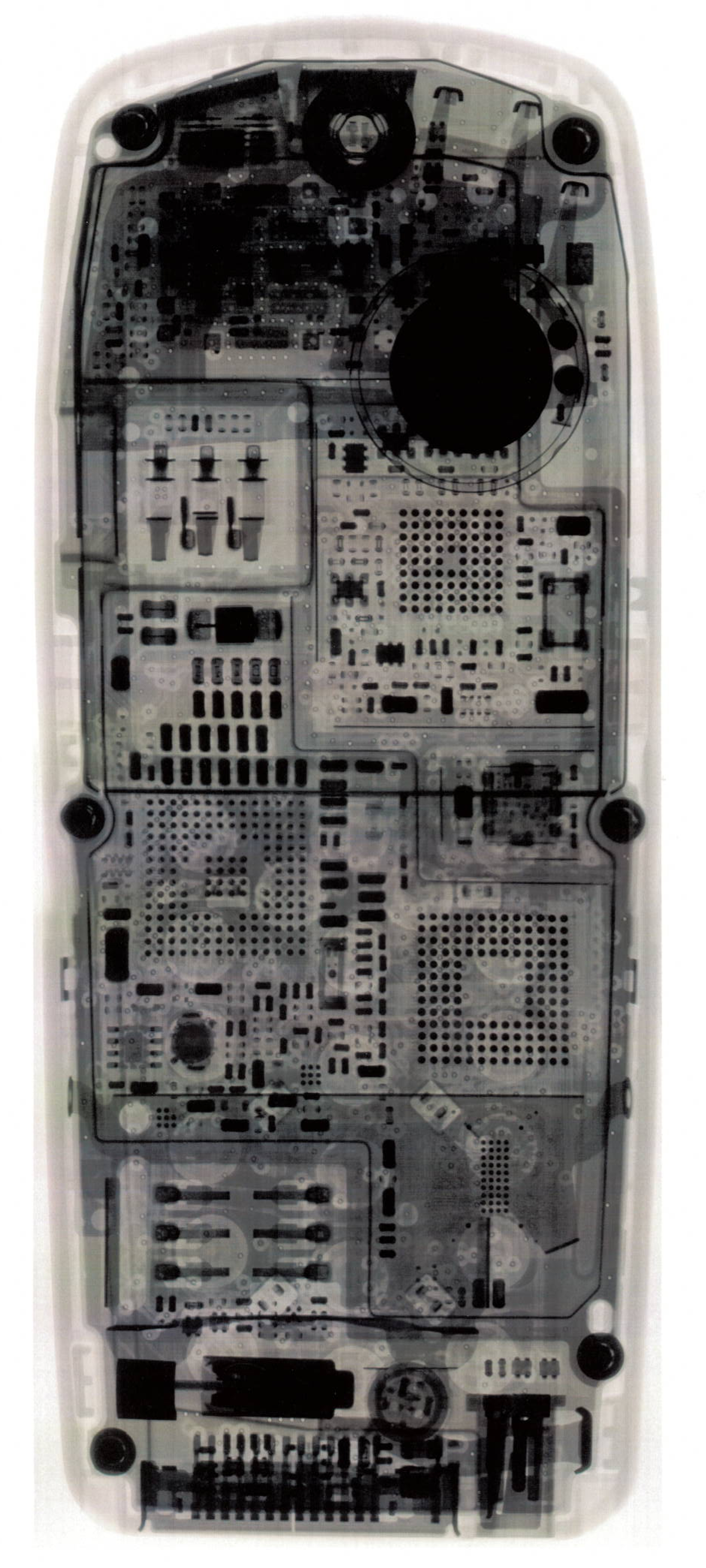 Synchrotron X-ray image of a cellphone taken at the BMIT beamline, Canadian Light Source